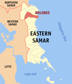 Map of Eastern Samar showing the location of Dolores